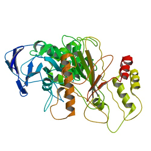 structure of the catalytic domain of human bile salt activated lipase (Carboksyl ester lipase).